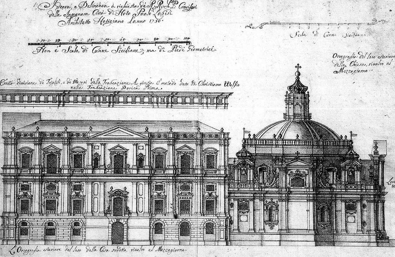 Francesco Paolo Labisi: Chiesa del Crociferio di San Camillo (Noto)